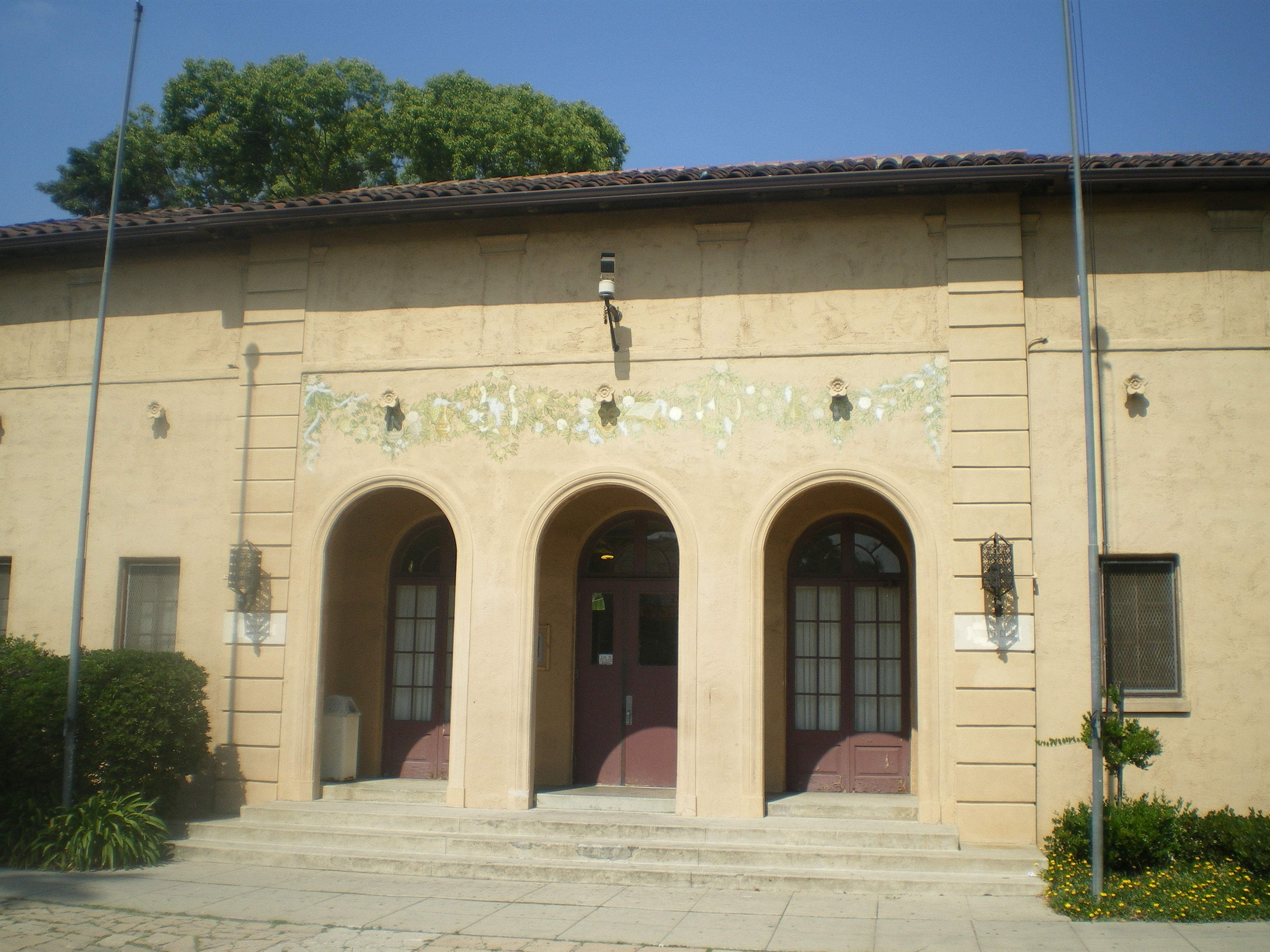 Hollywood Studio Club, Front Entrance, 1215 Lodi Place, Hollywood, Los Angeles, California